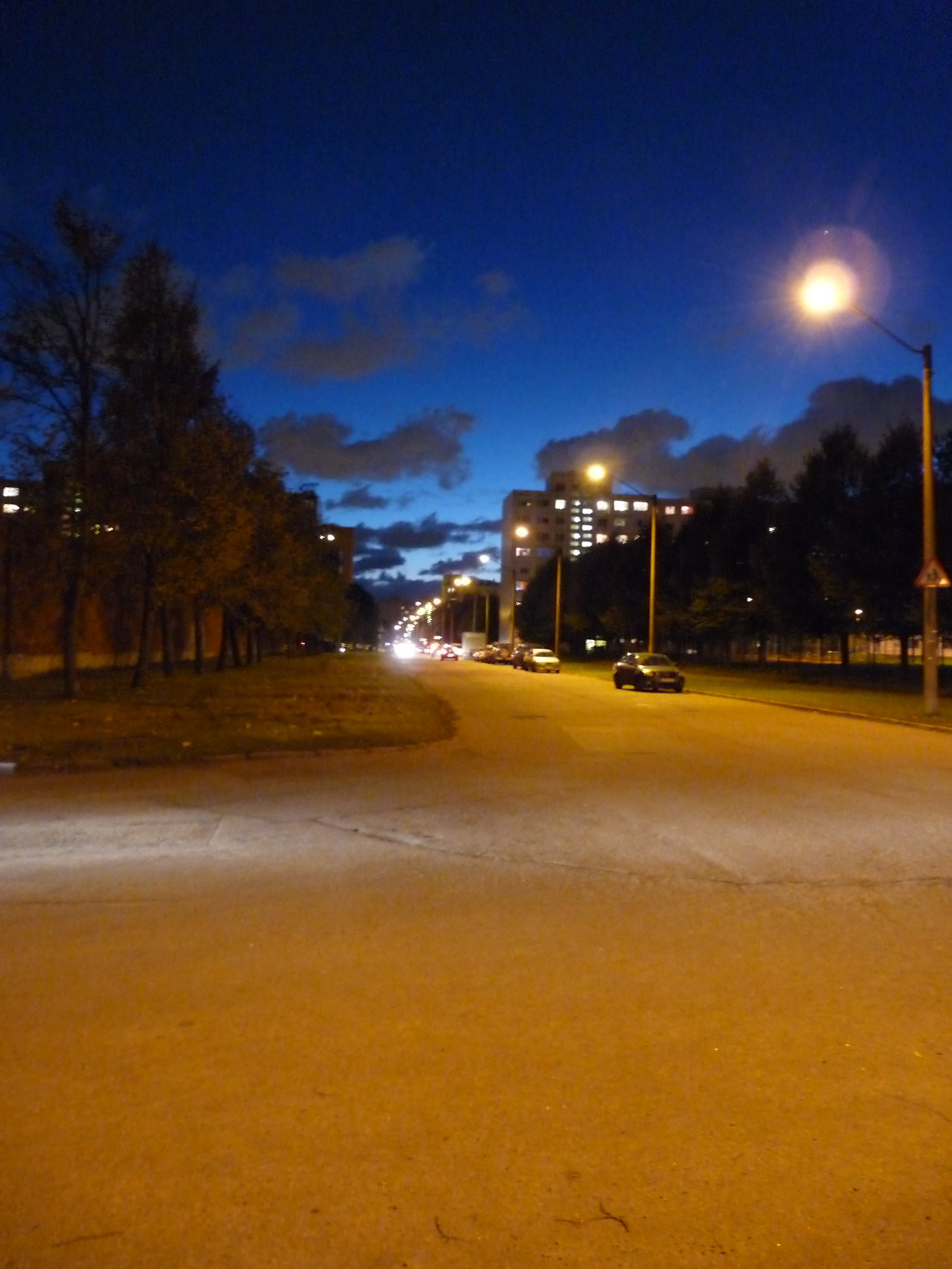 Intersection of Koorti and Lummu street in Tallinn, Estonia.